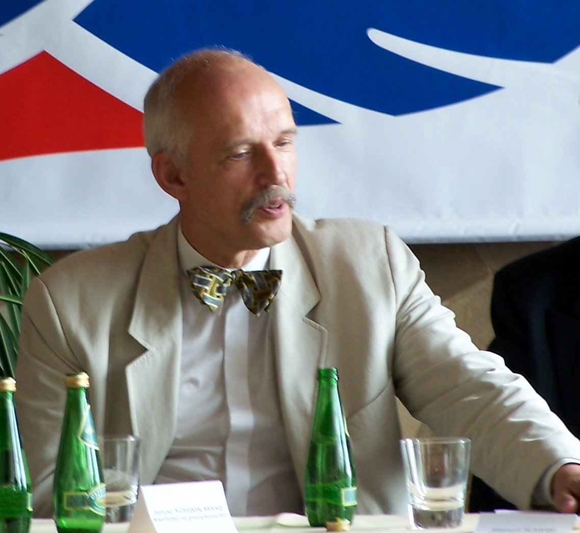 Janusz Korwin-Mikke (1942), Polish conservative-liberal politician, publicist and bridge master. Photo taken in Sky-bar, Katowice, Poland.